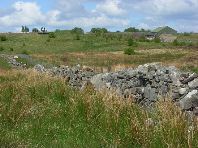 RAF Spadeadam Military installations in a lightly wooded area to the west of Spadeadam Forest at the western edge of the RAF base.